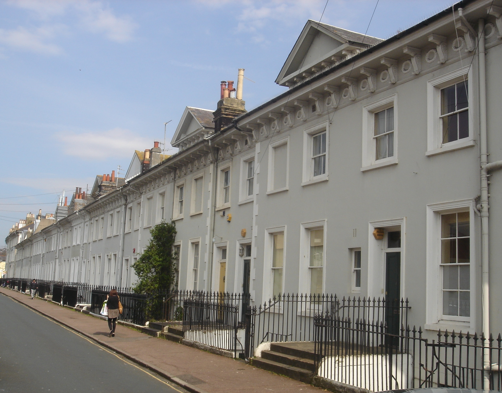 1–16 Park Crescent, Brighton, City of Brighton and Hove, England. Part of a crescent of houses built in about 1850 by Amon Wilds. Listed at Grade II* by English Heritage (IoE Code 481018)